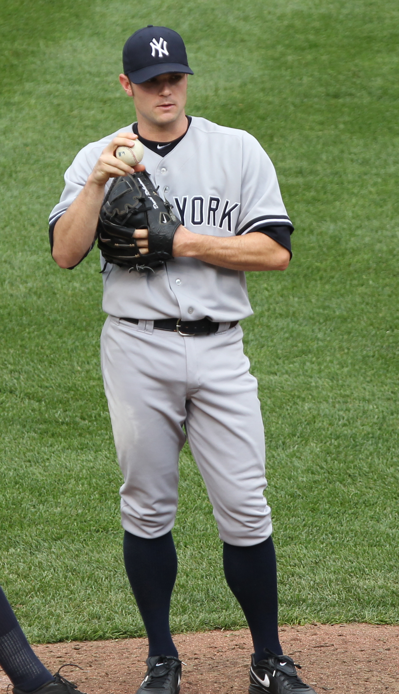 David Robertson on April 24, 2011